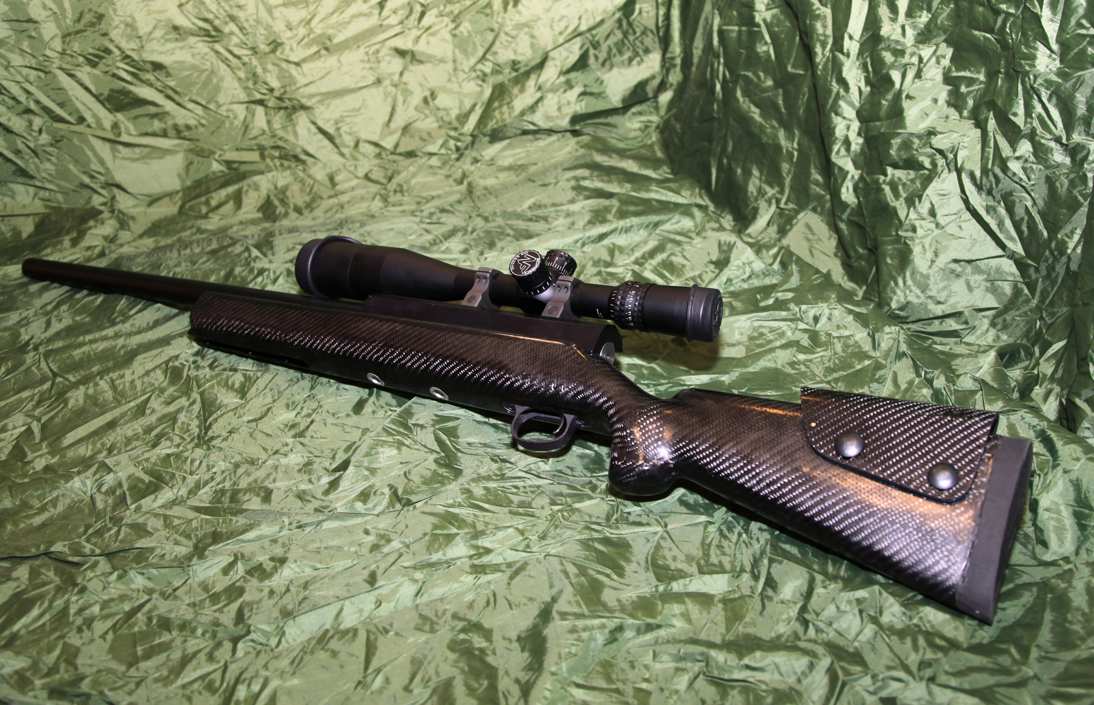 Lobaev rifle OVL-3 with NightForce 5.5-22x50 NXS scope